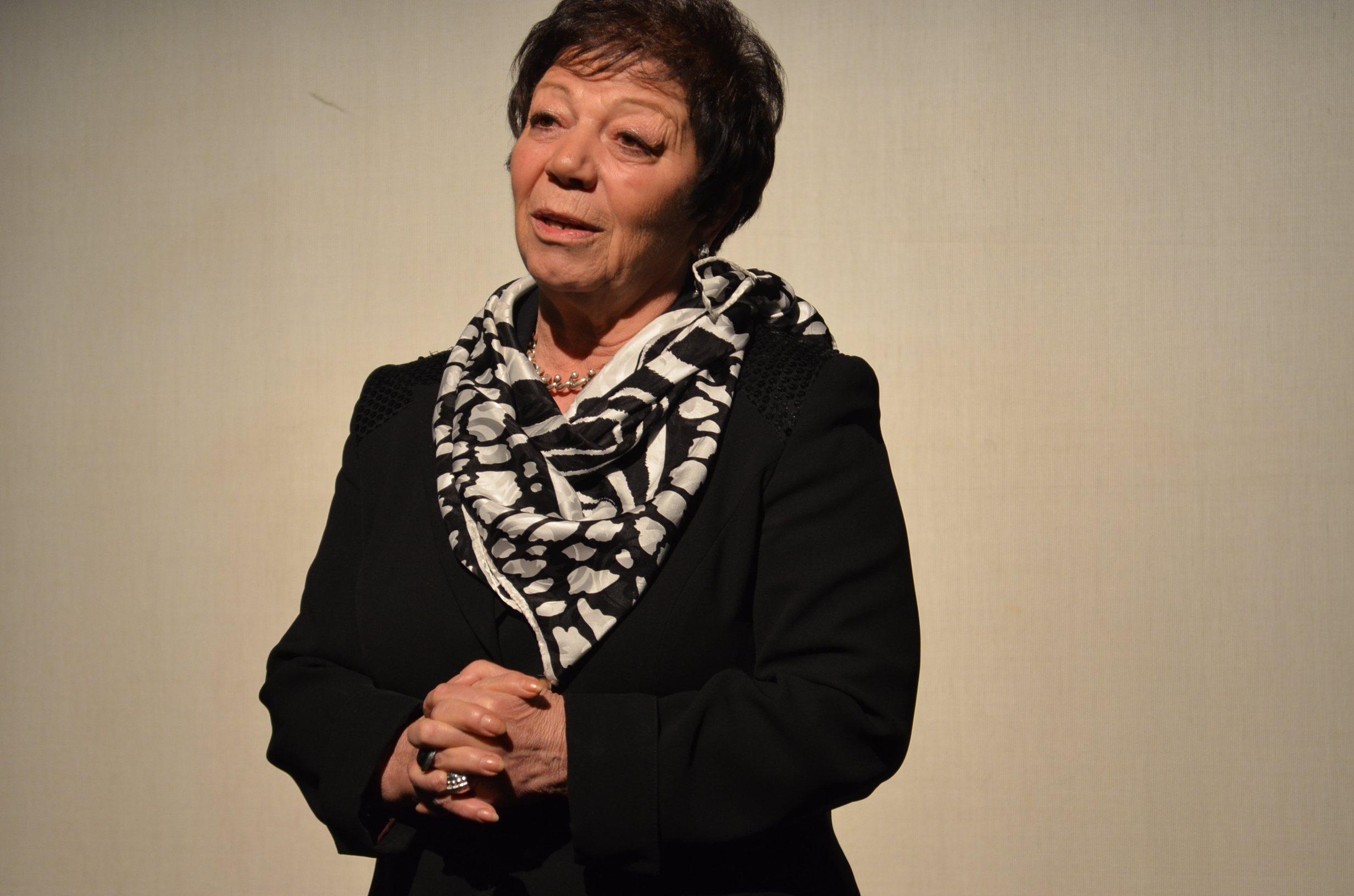 Bulgarian poet and publisher Bozhana Apostolova at the award ceremony of the "Ivan Nikolov" Poetry Prize in 2011